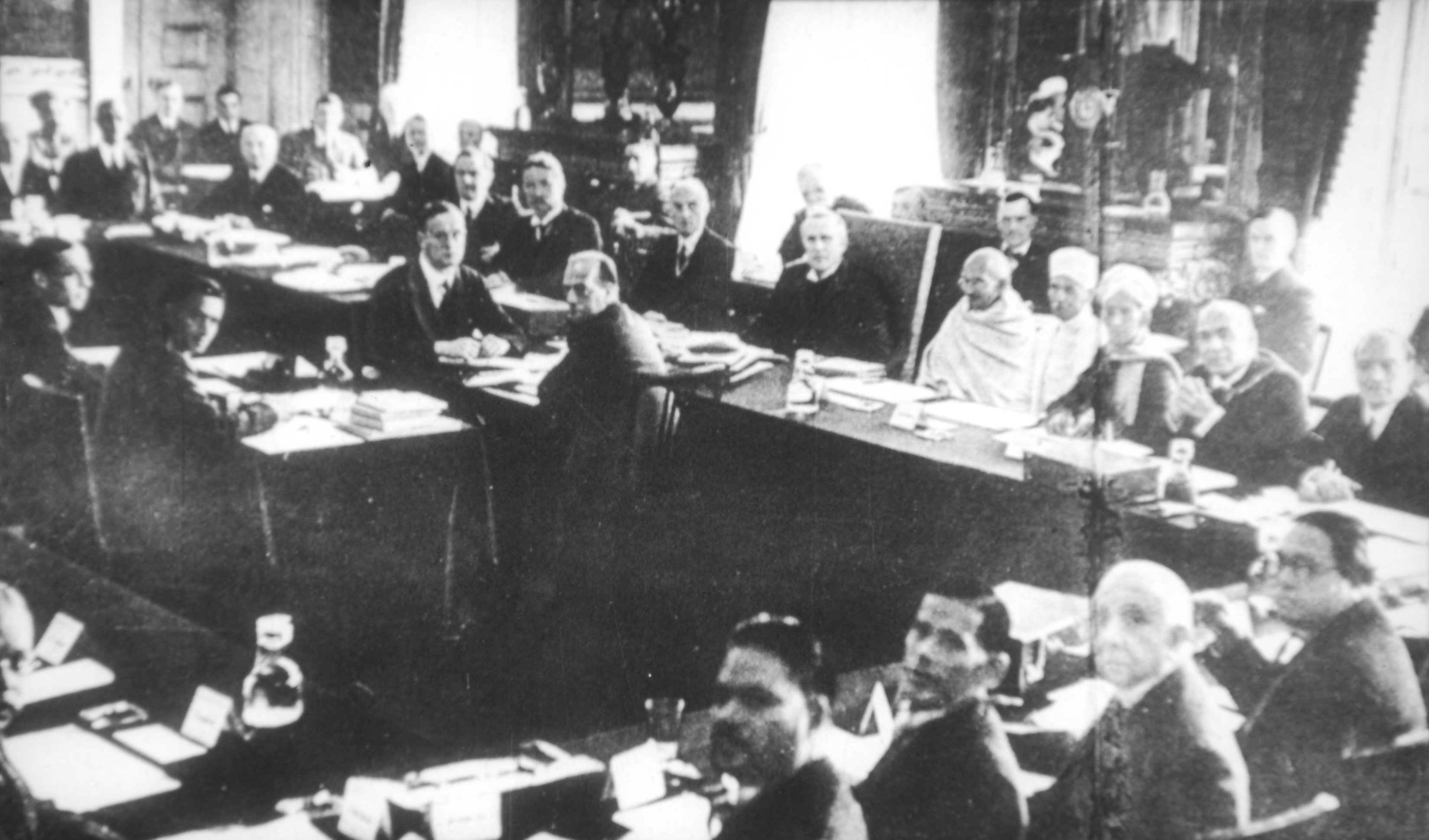 Gandhi and Ambedkar at the Round Table Conference, 1931.